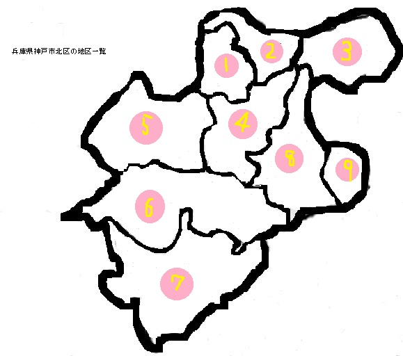 Kita-ku Kobecity Hyogopref list of all districts